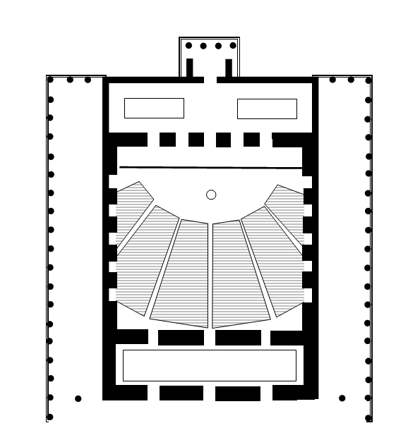 Floor plan of the original Odeon of Agrippa, constructed 15 BCE.